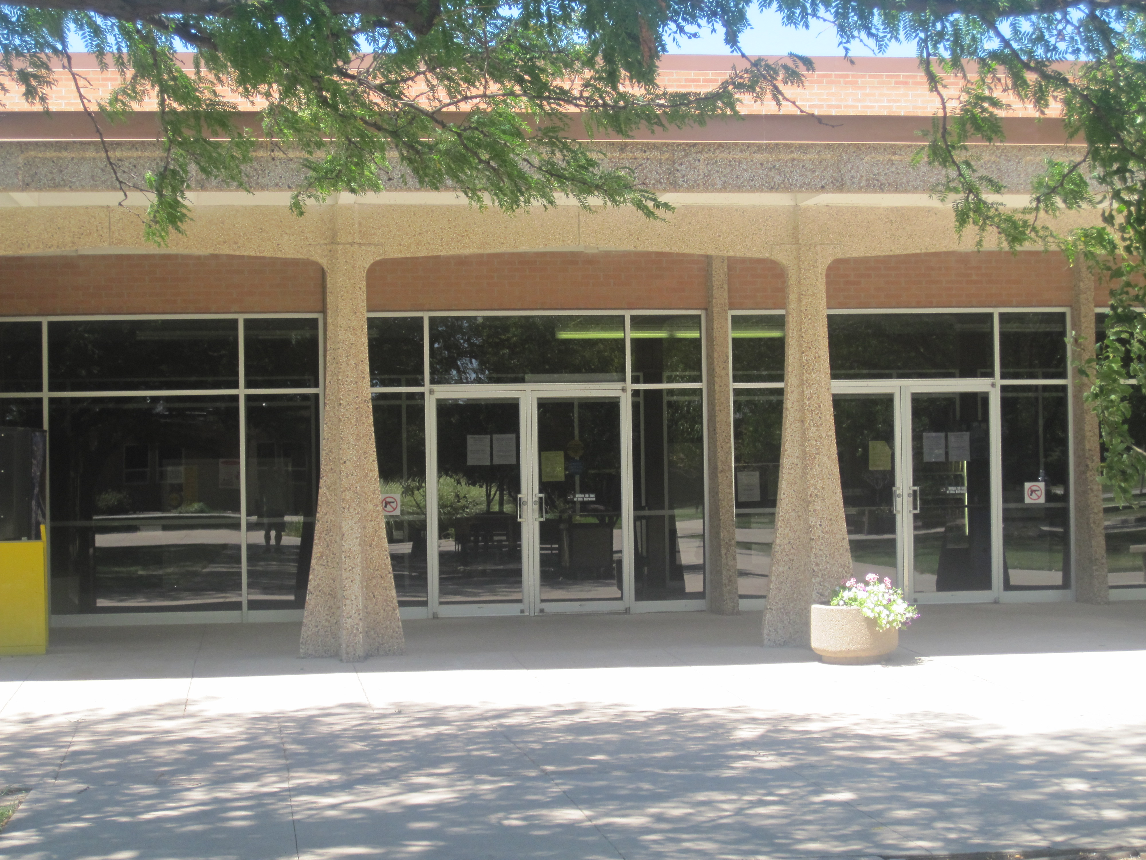 I took photo with Canon camera in Garden City, KS.